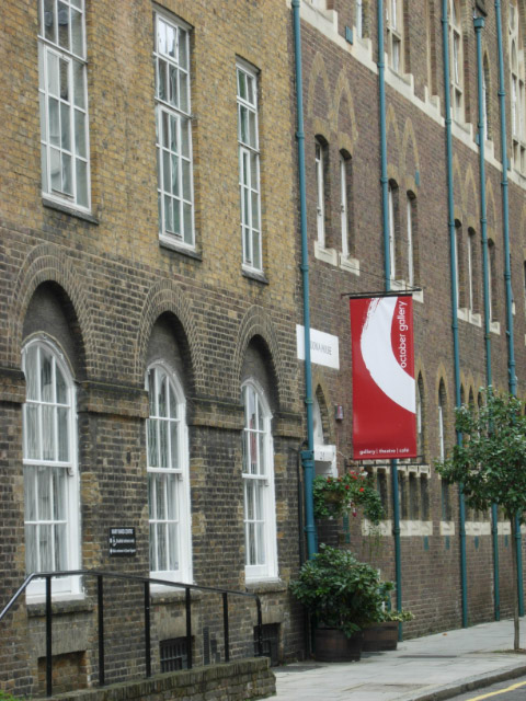 Old Gloucester Street, Bloomsbury Old Gloucester Street Runs between Queen Square and Theobald's Road parallel with Southampton Row. The buildings on the left are the Mary Ward Centre and the October Gallery.